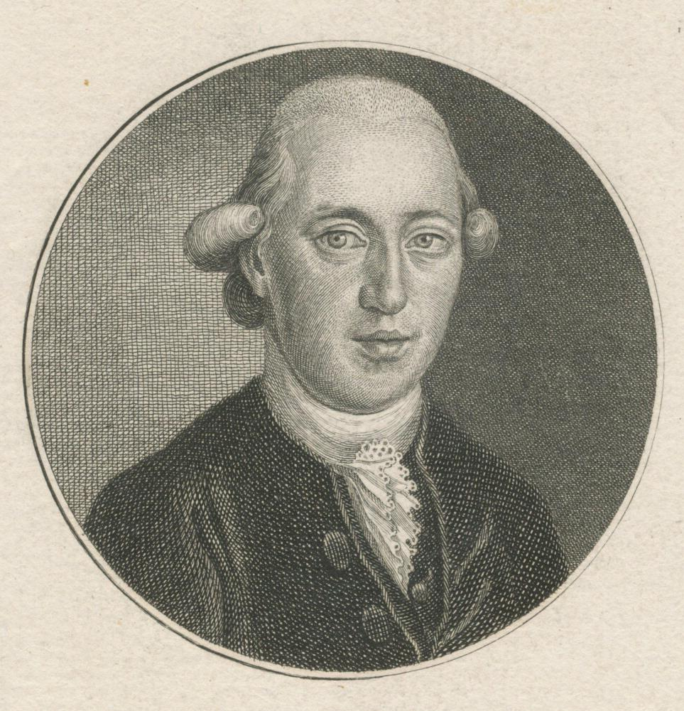 Kupferstich